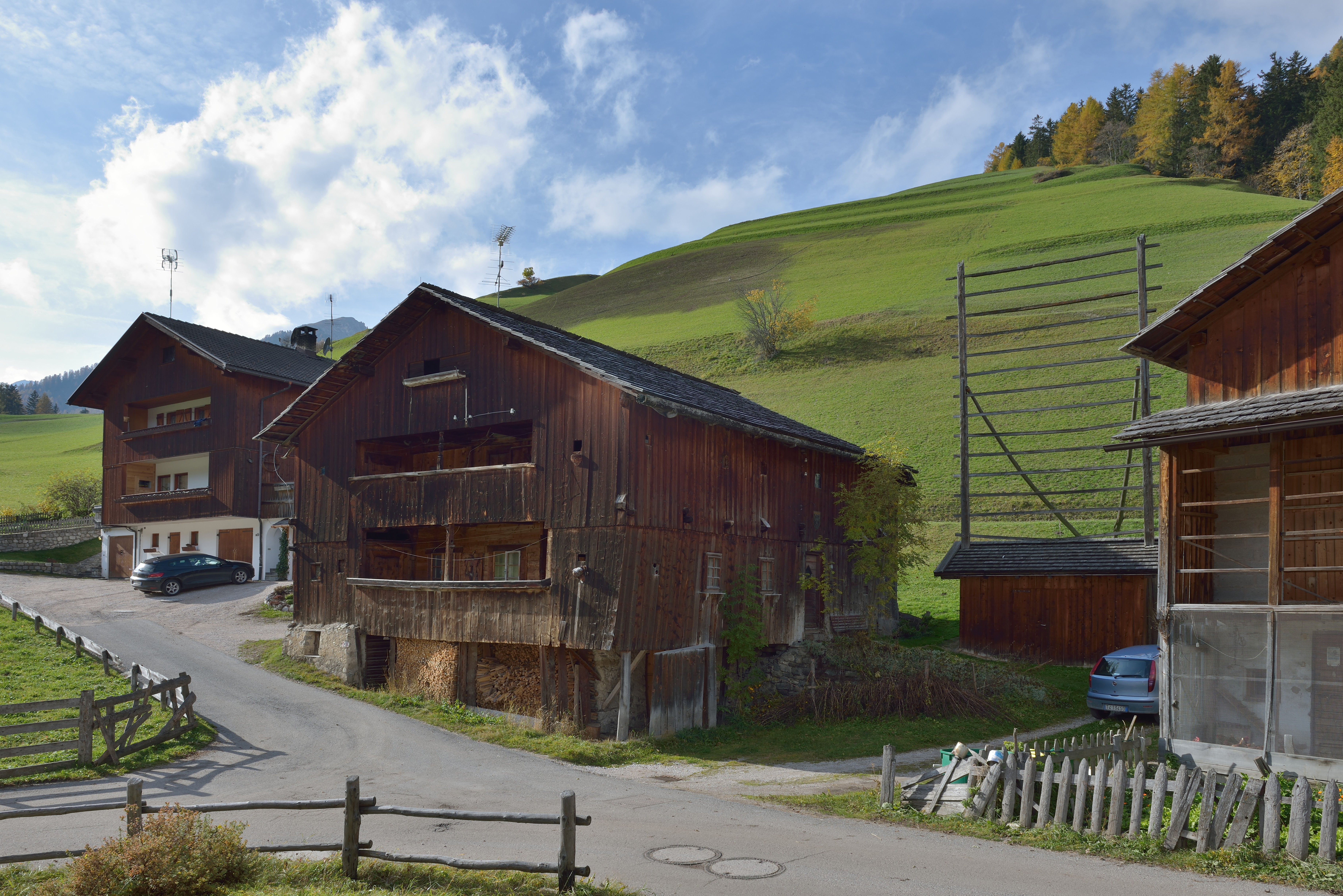 Farmhouse "Jeron De Jan De Mena" in Lungiarü